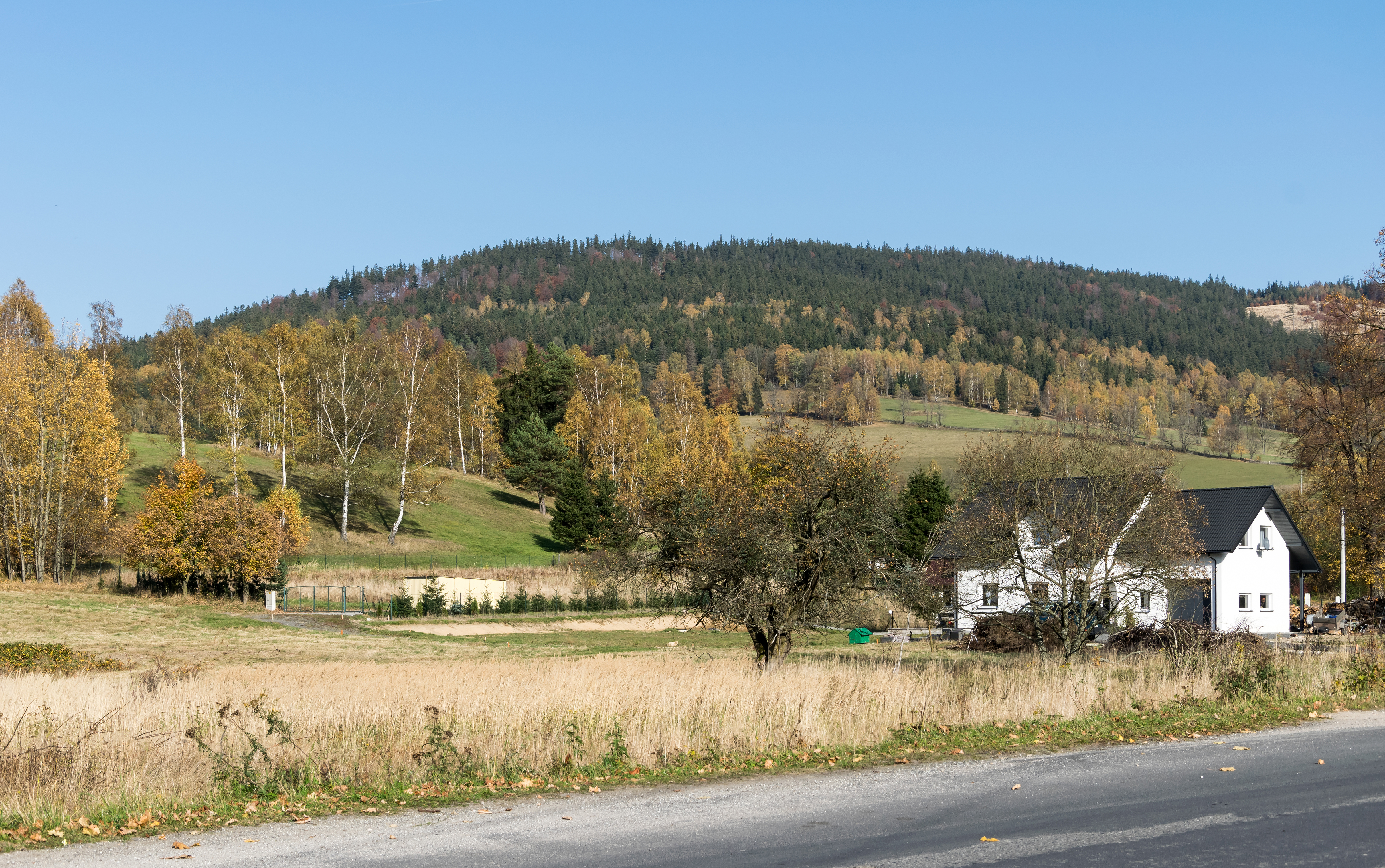 Czernik, Góry Złote, Sudetes. Exposure from Stary Gierałtów